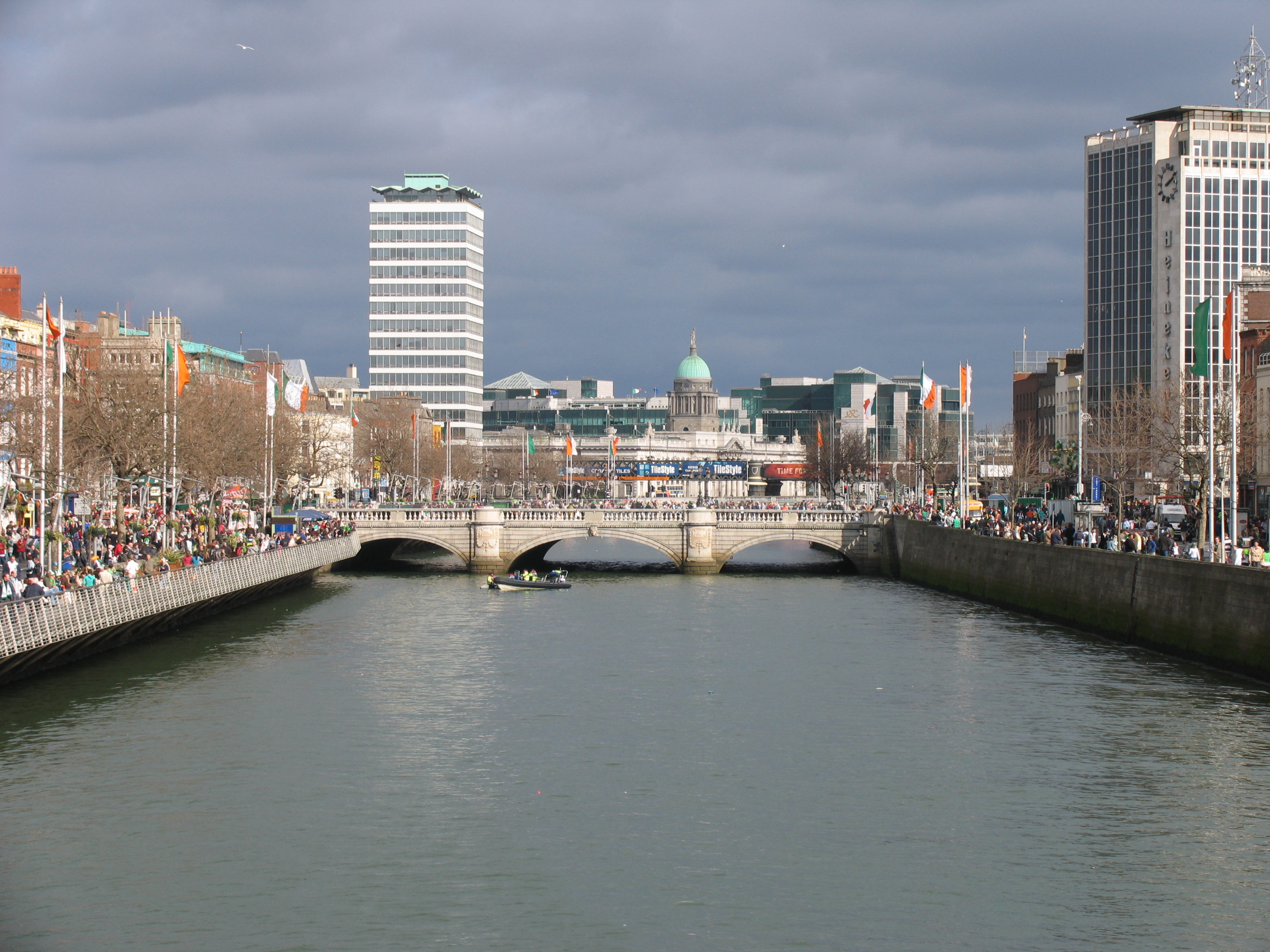 Dublin City-River Liffey